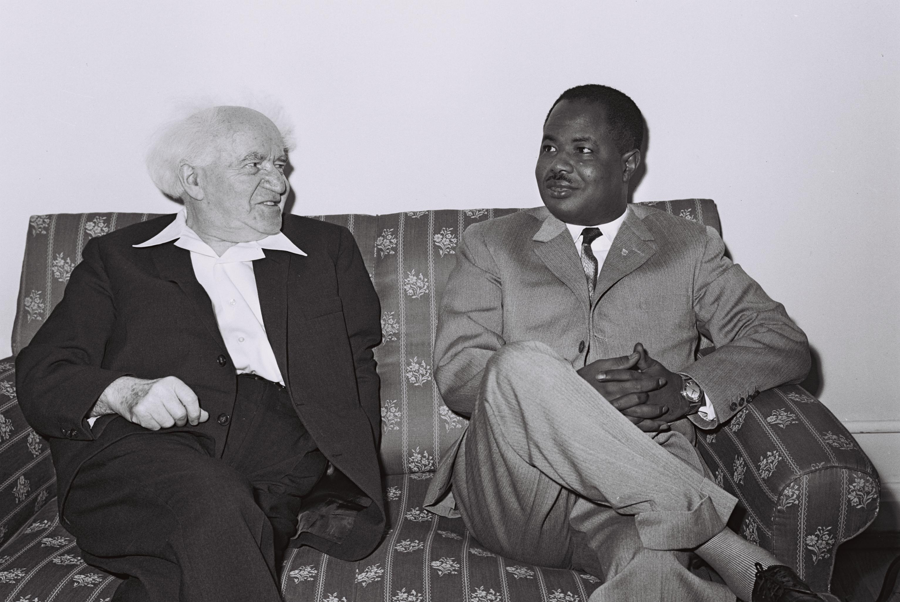 Ahmadou Ahidjo president of Cameroun meeting with prime minister David Ben Gurion, at the King David Hotel, Jerusalem.